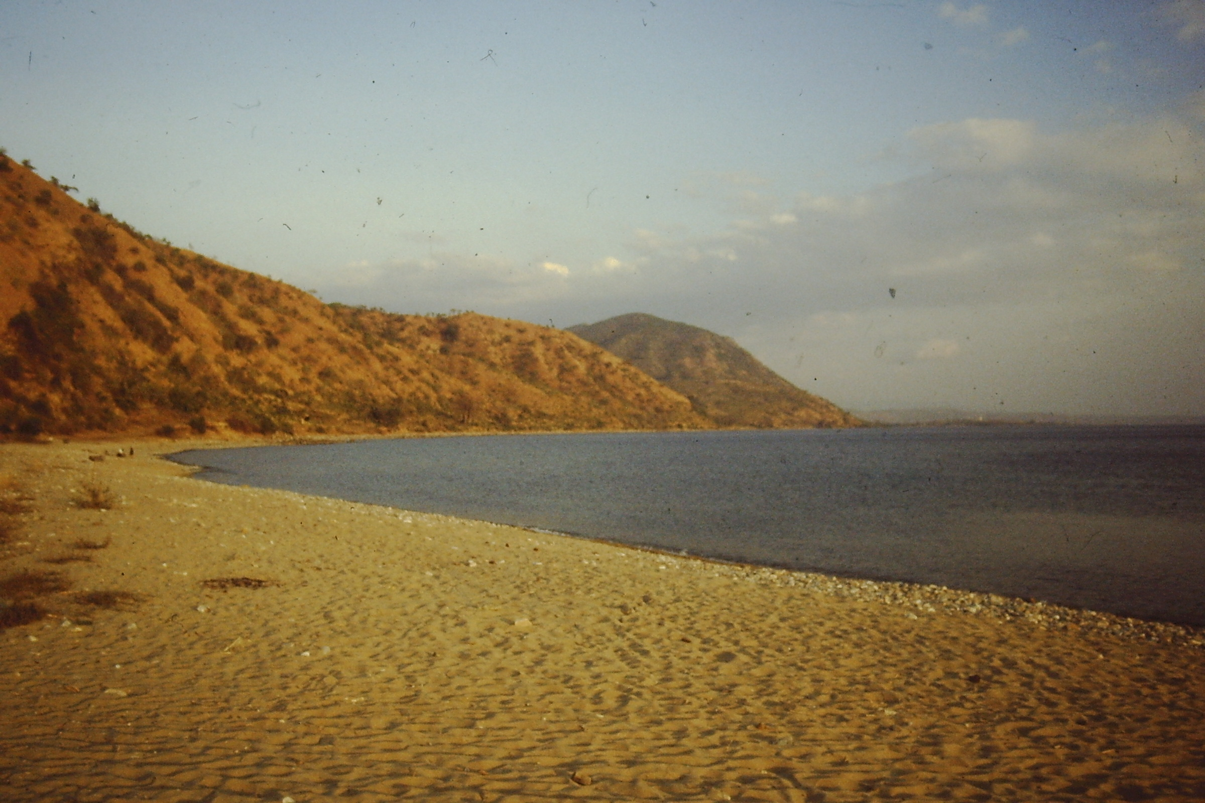 Chiuanga beach, a few km North of Metangula, on the Mozambican shore of Lake Malawi (1988)